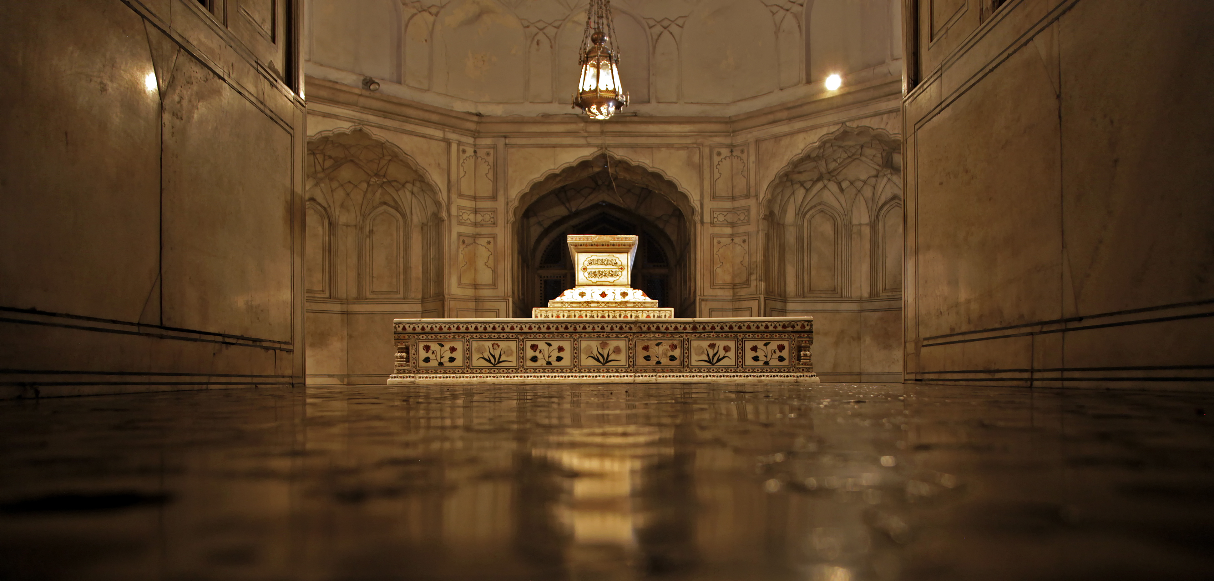 Jahangir’s Tomb and compound This is a photo of a monument in Pakistan identified as the PB-64